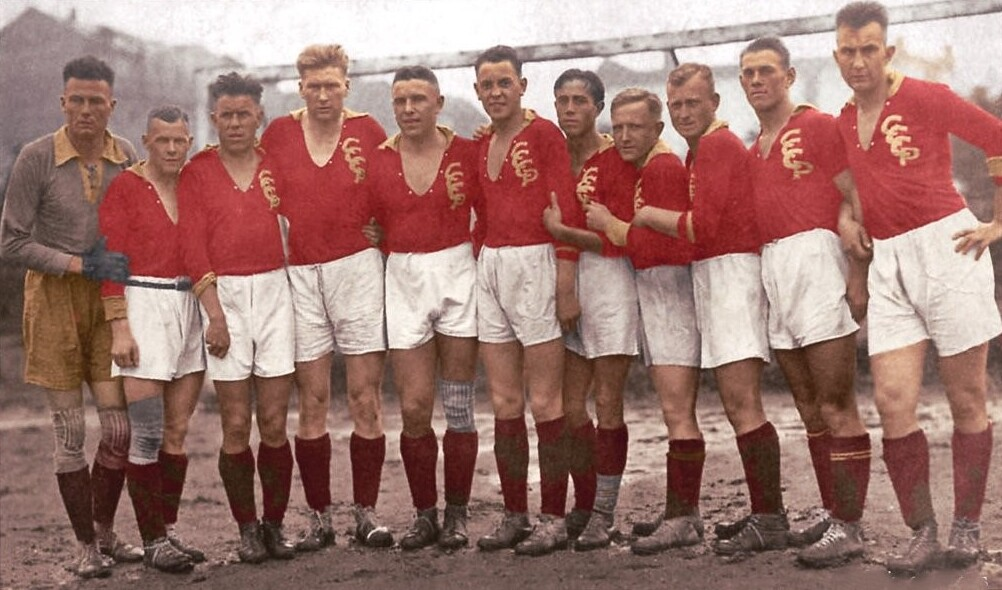 Soviet Union football team line-up.